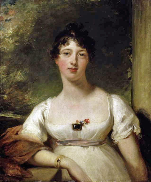 Anna Maria Dashwood married the 2nd Marquess of Ely in 1810. This portrait was painted in about 1805, when she was nineteen or twenty. She faces the viewer, leaning her right arm on a table, wearing a high-waisted white dress with short sleeves and a pink sash; her hair in a topknot with curls around the face; a large rectangular jeweled brooch at her breast with a small sprig of pink and blue flowers, a jeweled bracelet on her right wrist; and a pink shawl.